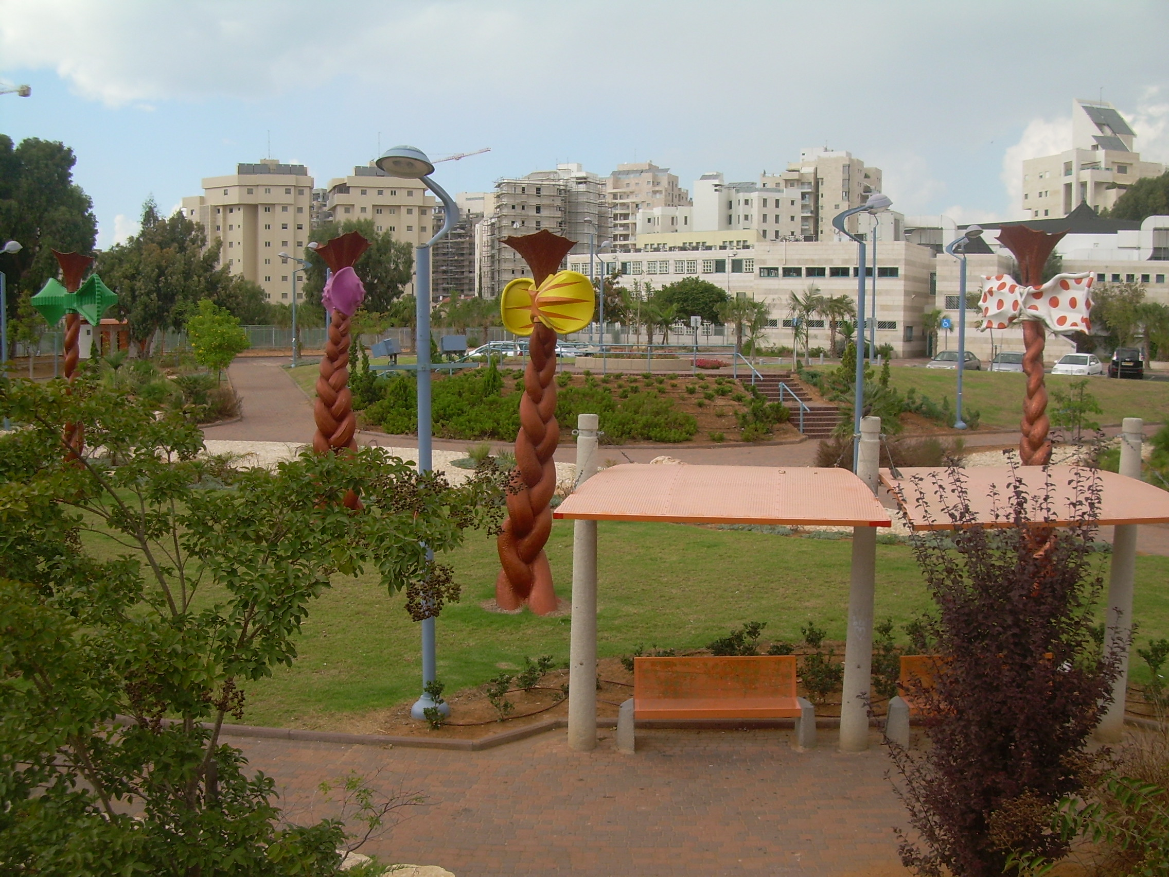 Children's Park in Holon, Geography of Israel